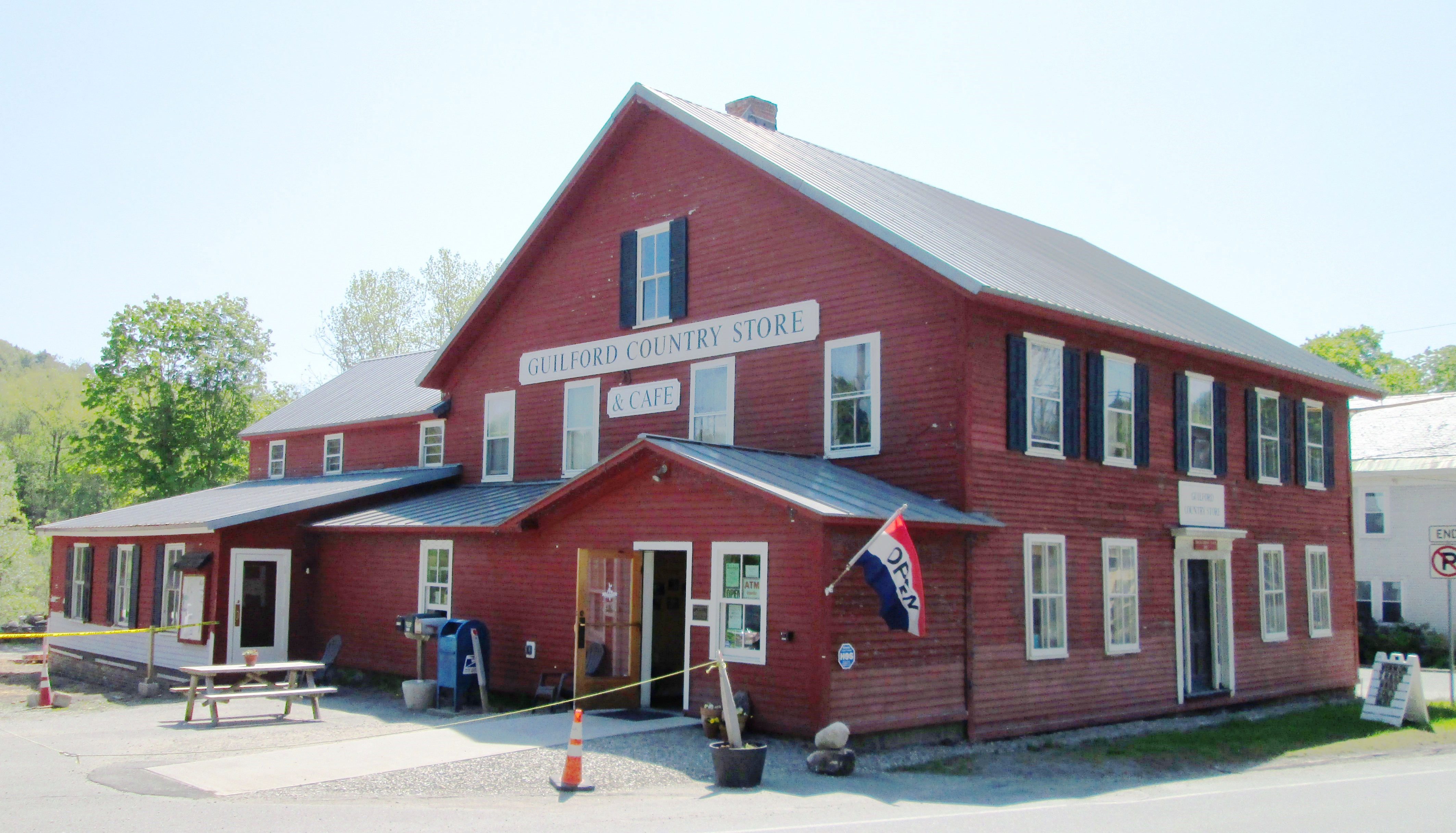 The Guilford Country Store is located at 475 Coolidge Highway (United States Route 5) in Guilford, Vermont. It is located in the 1817 Broad Brook House, one of the oldest surviving tavern houses in the state, and has been in operation since 1936.